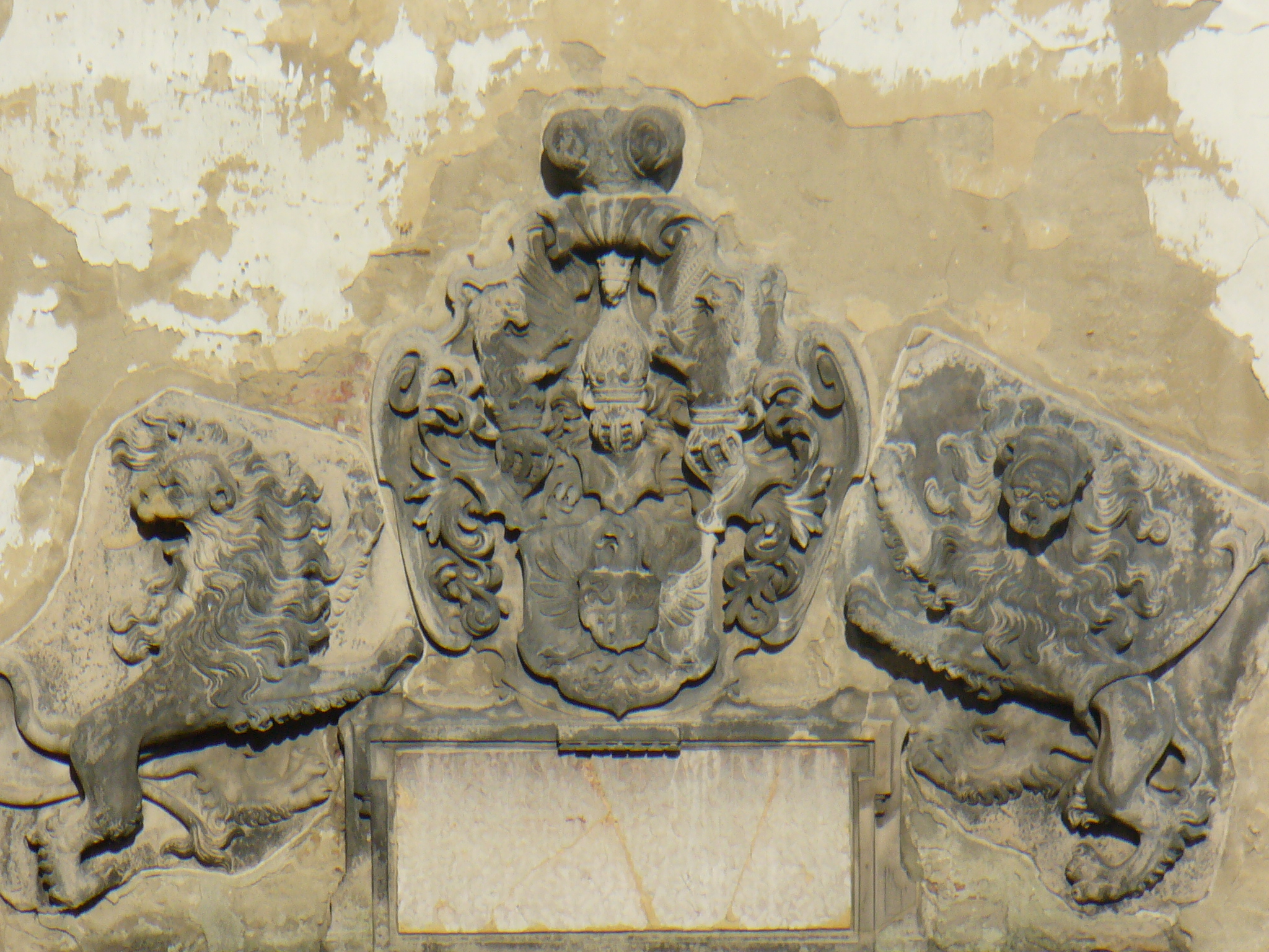 Antique portal in the Szydłowiec castle. Szydłowiec near Radom, Poland.